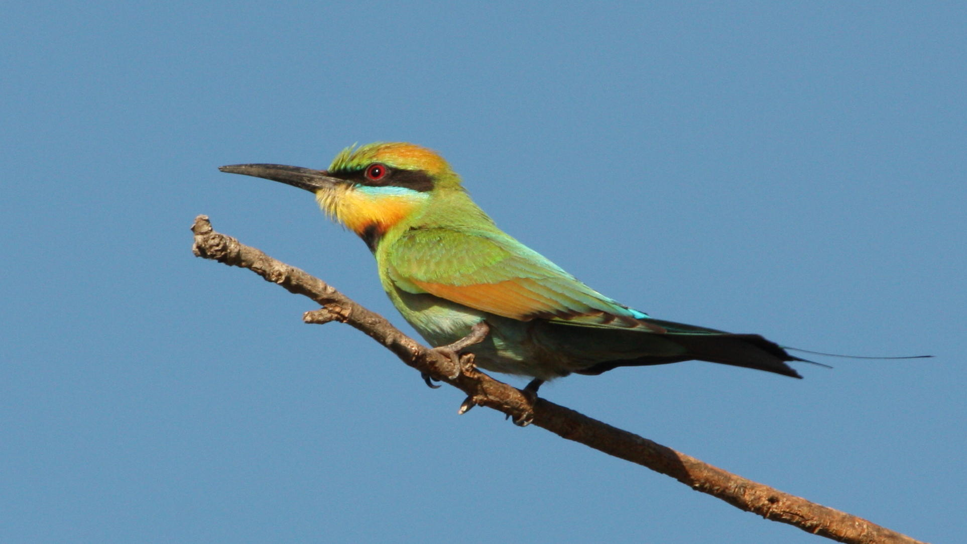 A Rainbow Bee-eater in Australia.